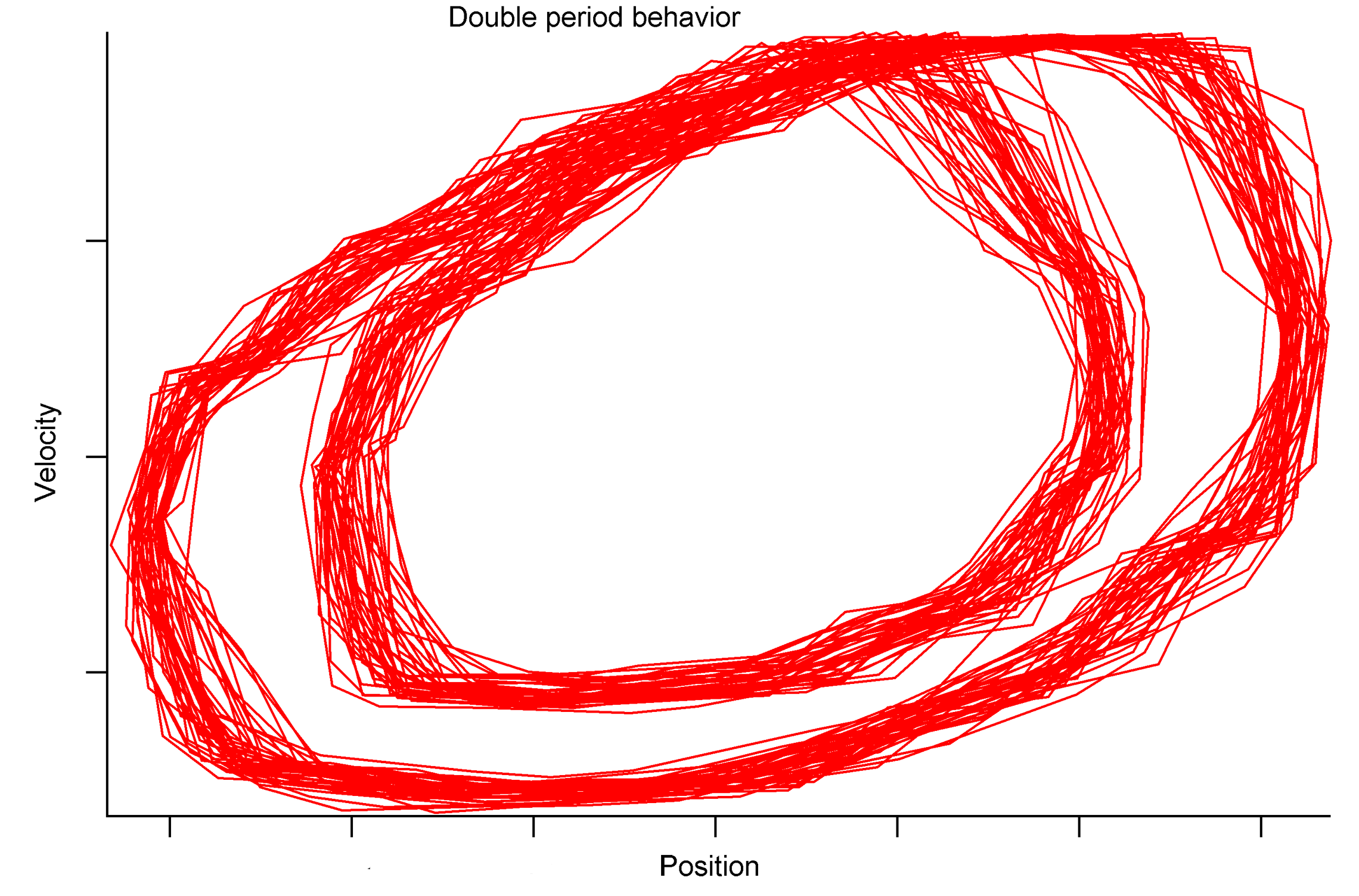 Damped driven TEL-Atomic Multipurpose Chaotic Pendulum, phase diagram of velocity versus position, displaying double period behavior.